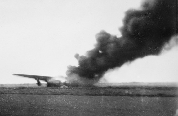 A pall of smoke rises from the burning hull probably of a Liberator, one of the six large aircraft, which included two Flying Fortresses and a Liberator, destroyed on the aerodrome in the Japanese air-raid on the town on 3rd March 1942. Most of these aircraft had just arrived from the Netherlands East Indies carrying refugees who were still aboard them. It is estimated that 35 to 40 people were killed, including women and children, and probably as many again wounded in the raid. Fourteen flying boats in the harbour were also destroyed. (Original print housed in the AWM Archive Store).